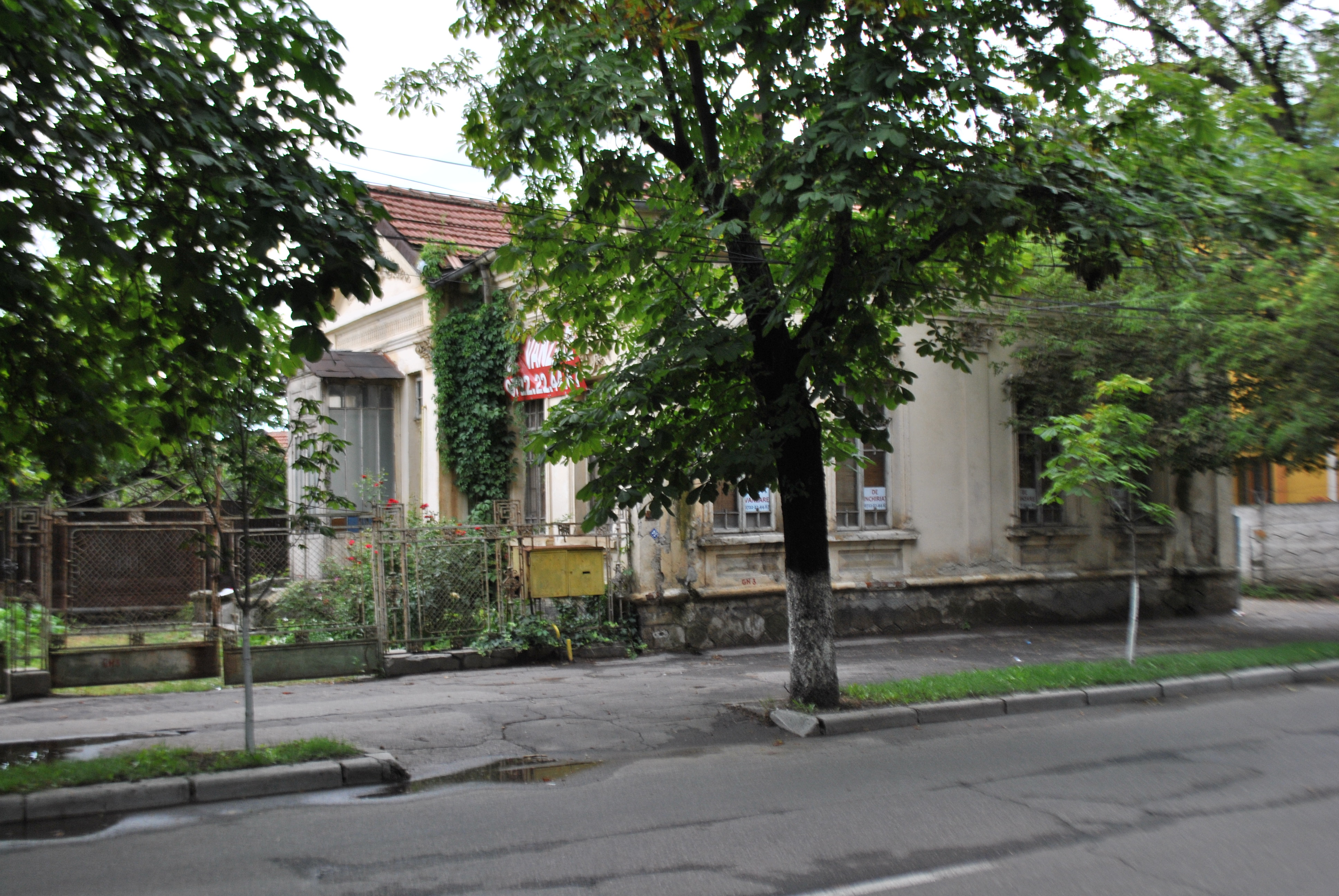 Historic building on Gării 14, Buzău, RomaniaRomână: Clădire istorică din Buzău, România, pe bd. Gării